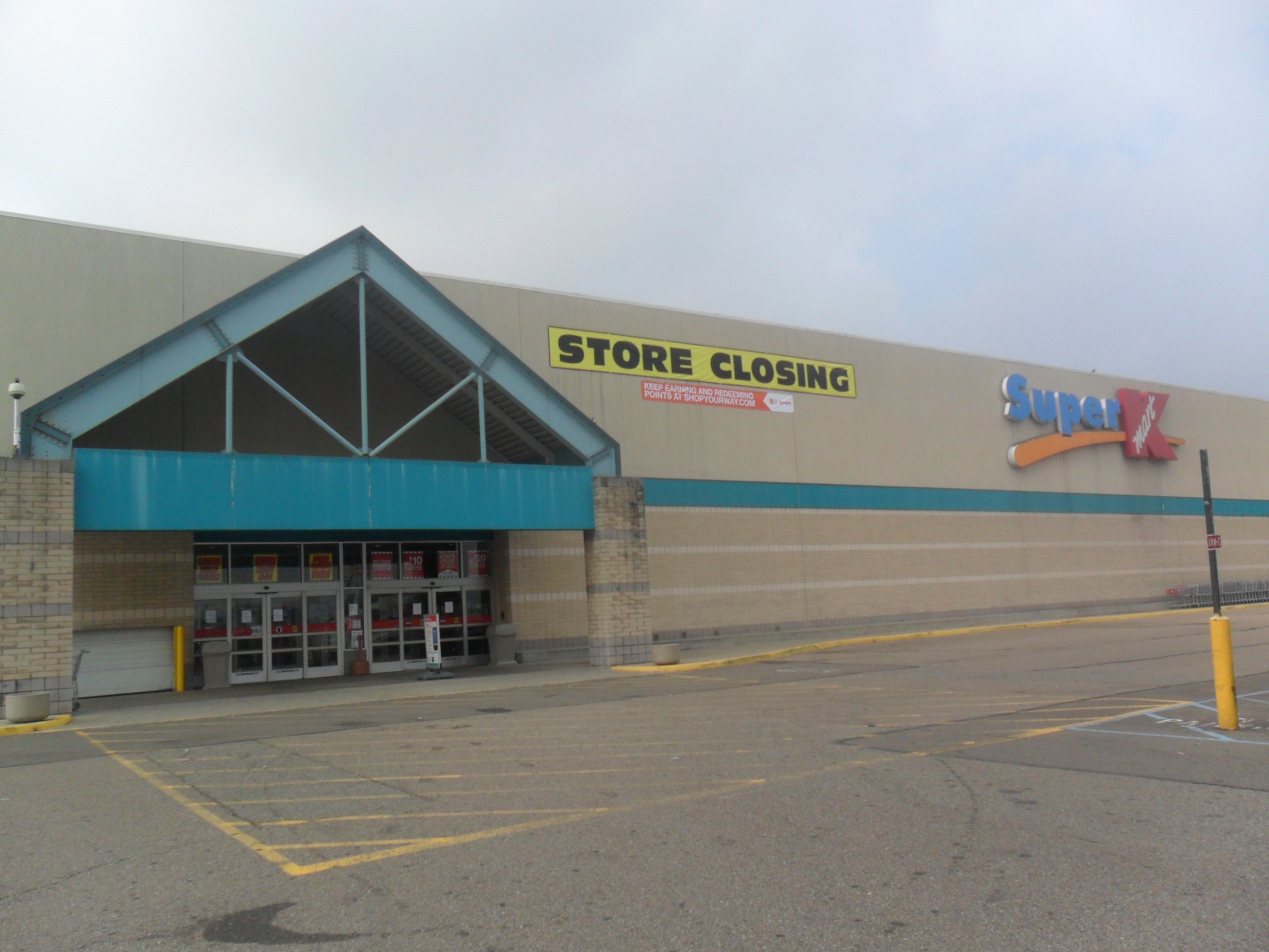 The Southgate Super Kmart as it was beginning to close on July 27, 2014. Taken by me on that date.